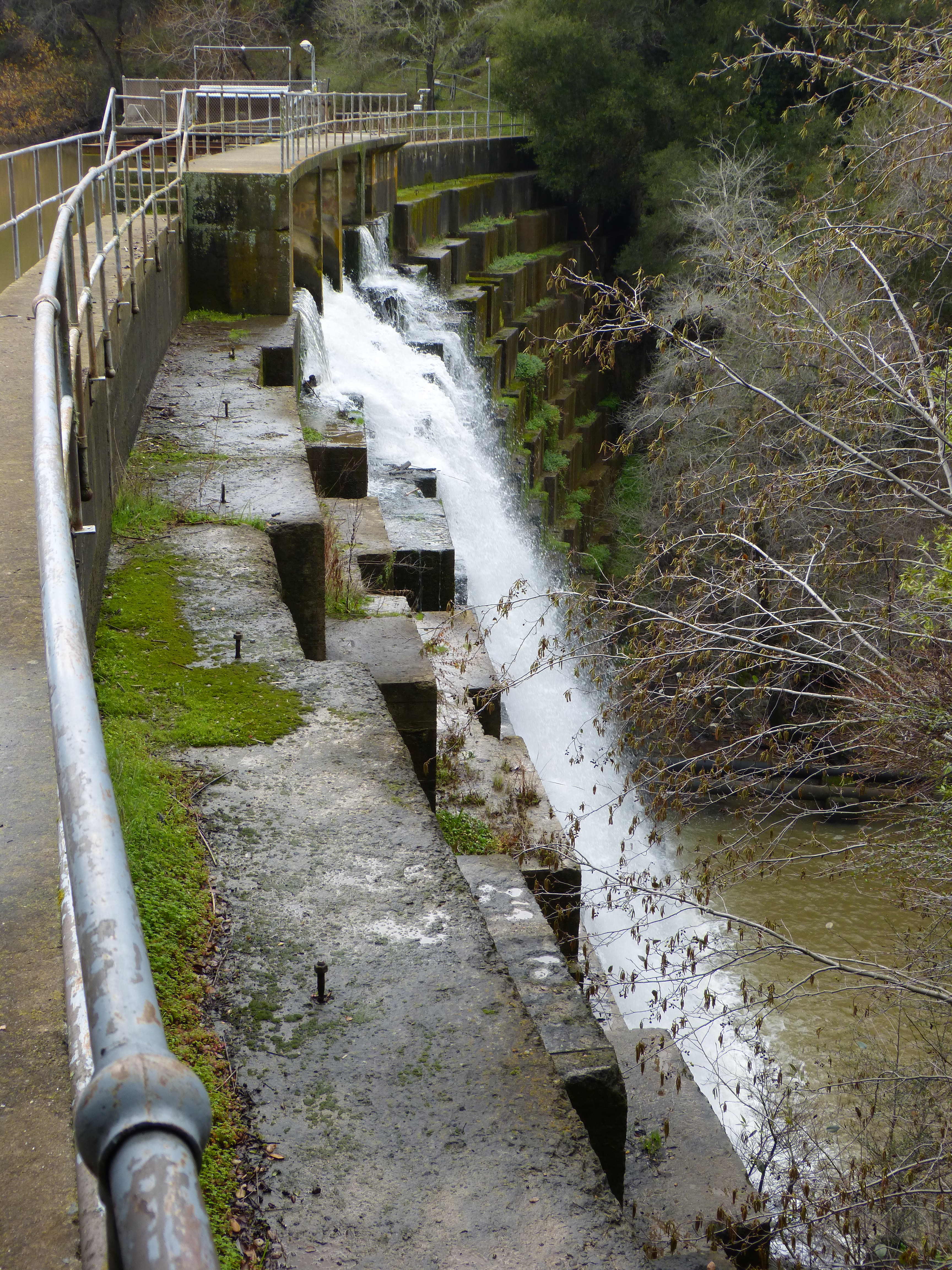 A view across the top of Searsville Dam in 2013. The water of Searsville Lake is just visible in the upper-left region of the photo.